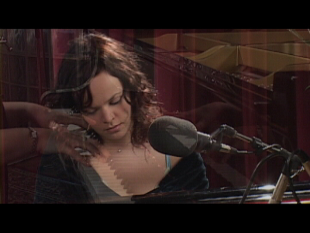 Allison Crowe Tidings DVD grabbed